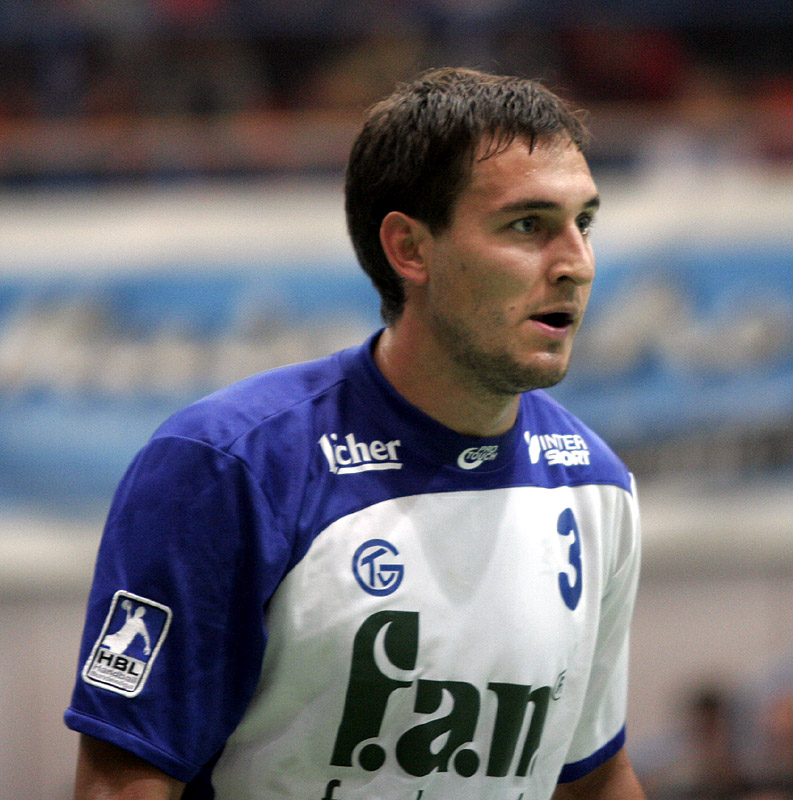 Philipp Müller, handball player of TV Großwallstadt, on September 1st, 2007 in Aschaffenburg (Germany), prior the game TV Großwallstadt - THW Kiel